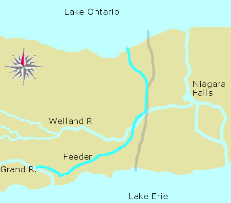 Approximate map of the location of the First Welland Canal (enwiki). The present-day canal marked in pale bluish-grey. First Canal timeline: Image:Welland Canal - First Canal Stage One.png (original plan) Image:Welland Canal - First Canal Feeder.png (1829) Image:Welland Canal - First Canal Port Colborne.png (1833) Created by User:Qviri 22.03.2006 based on various sources including scanned materials, screenshots from Google Earth, blood and tears, etc. Multi-layer source available on request.